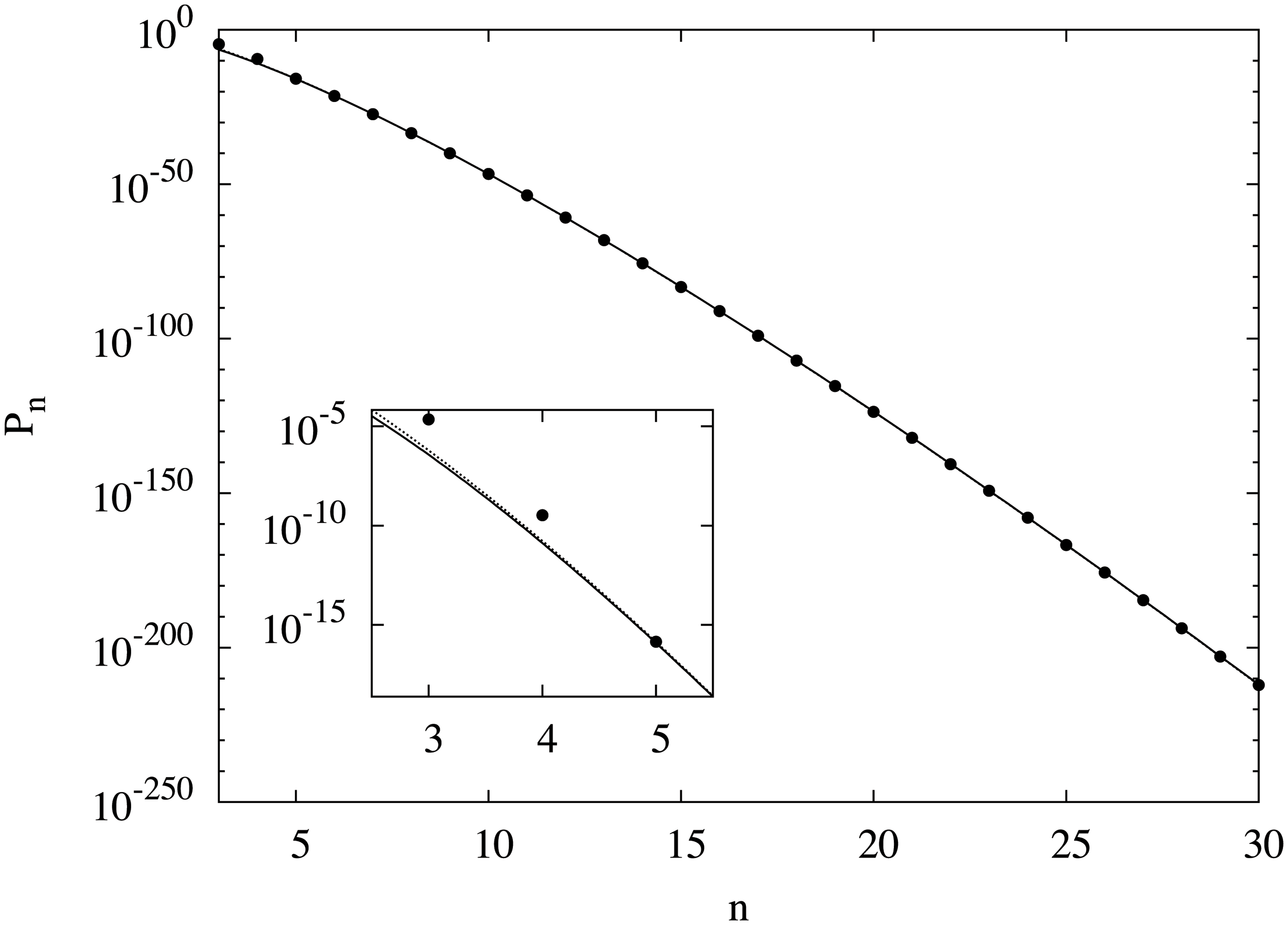 Semi-log plot of n's dependence on Pn, where n is the dimension of a magic square and Pn is the probability a magic square appears from the Monte Carlo method.